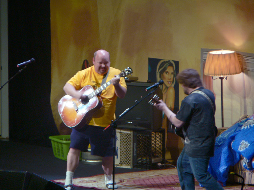 Kyle Gass facing the audience and playing a guitar. Tenacious D in concert, 2006.